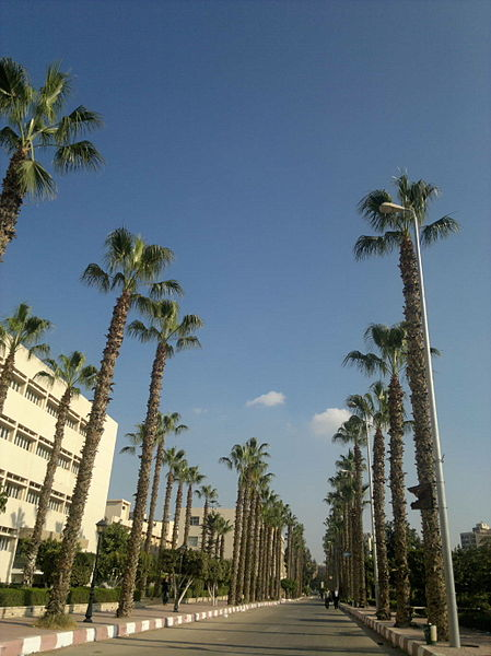 via palm